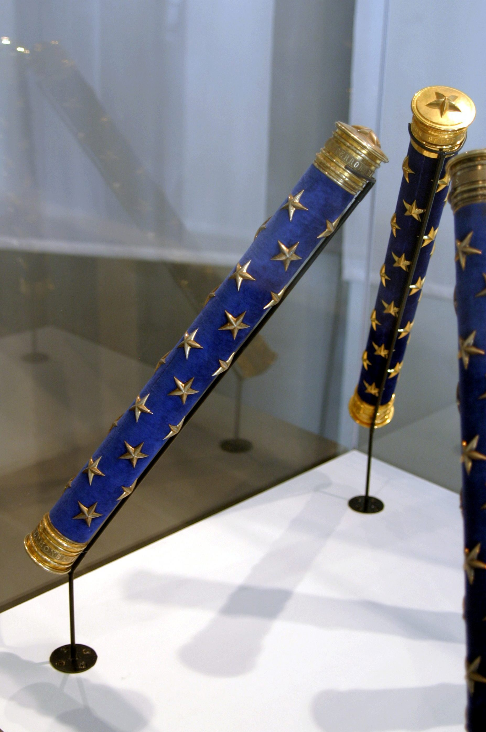 This image was taken at the Musée de l'Armée, Paris.